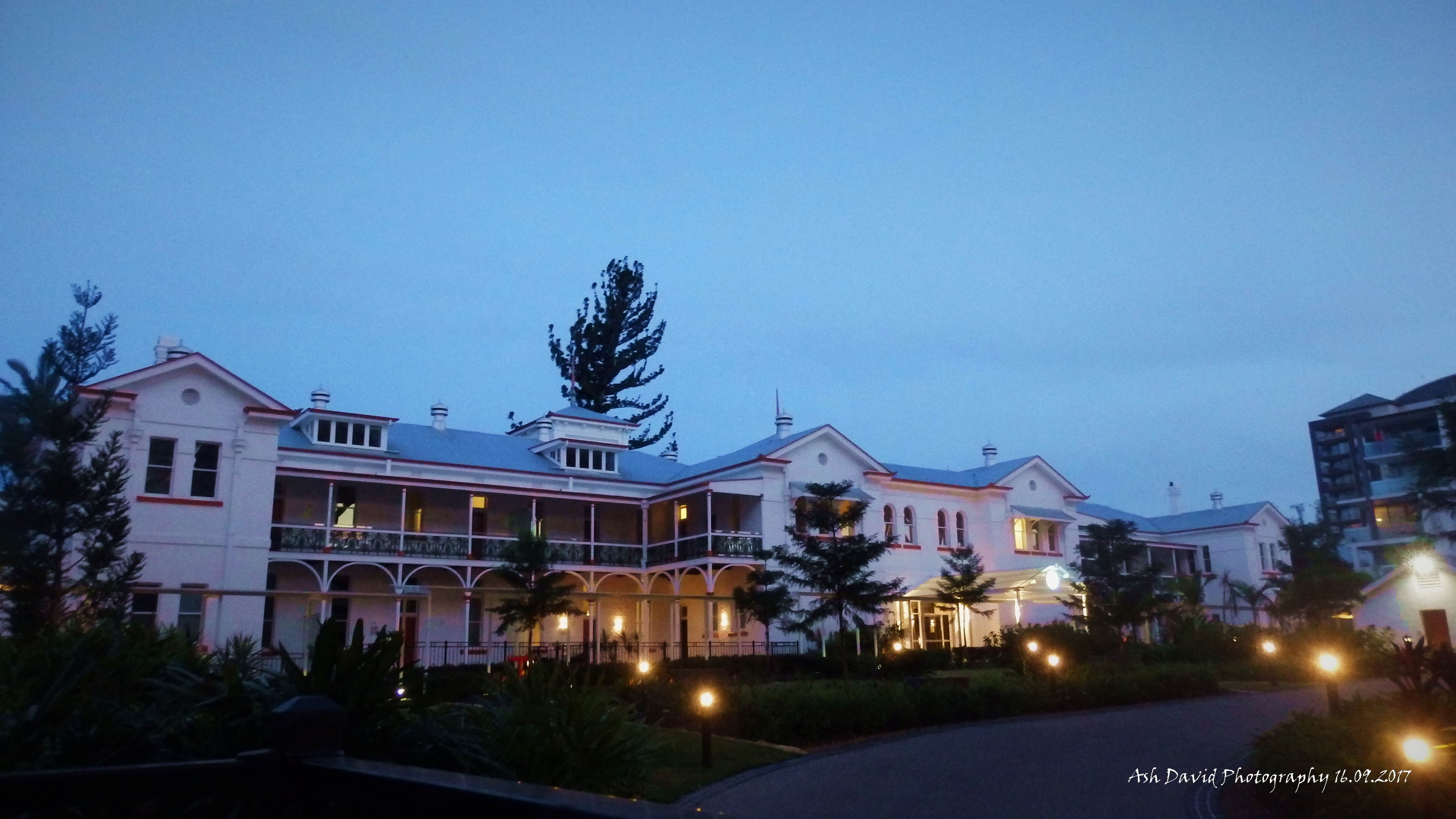 Yungaba Immigration Centre, September 2017